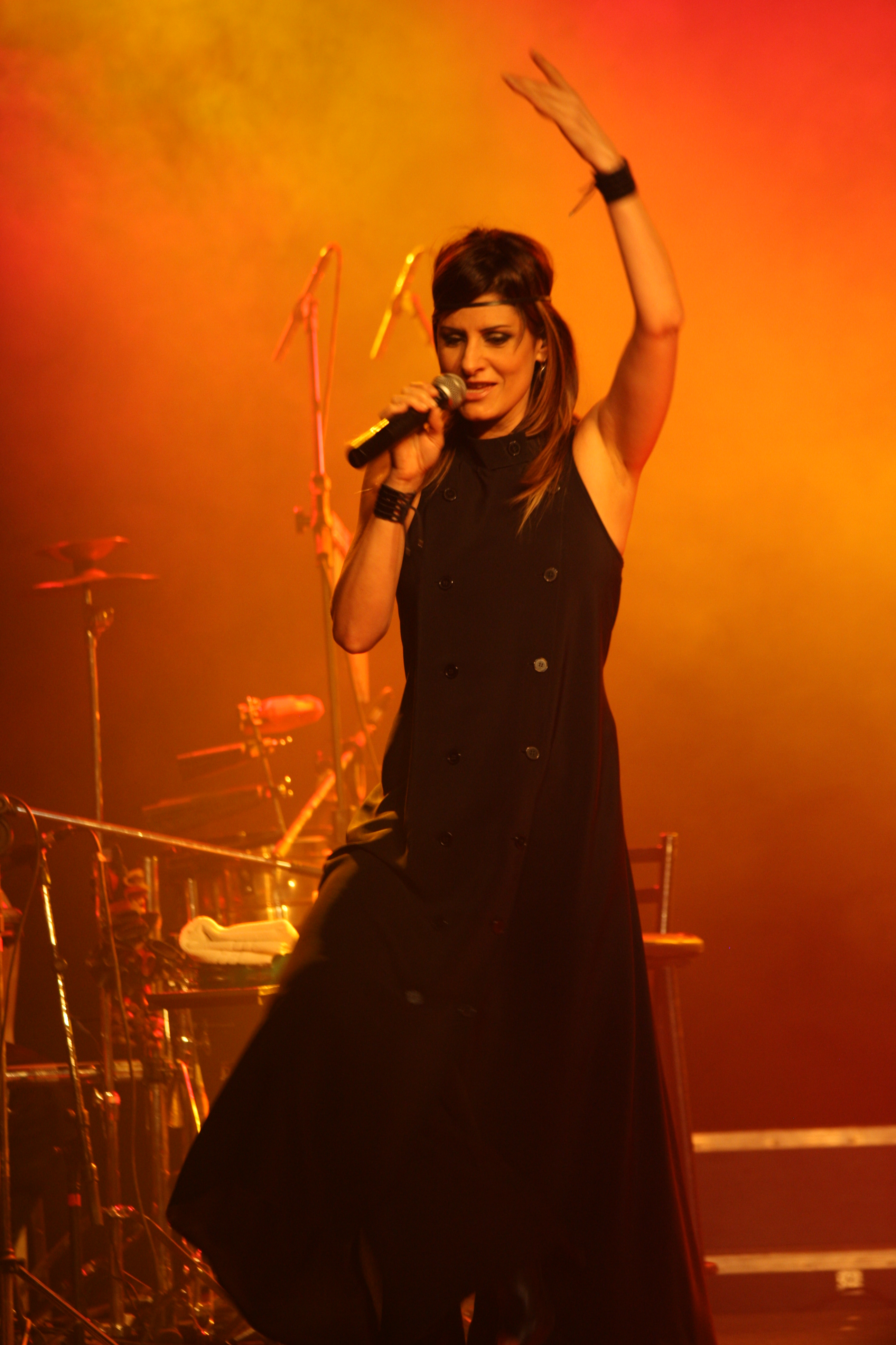 Fernanda Abreu from Brazil.